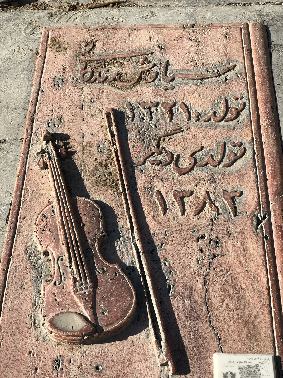 Beheshte Zahra Cemetery